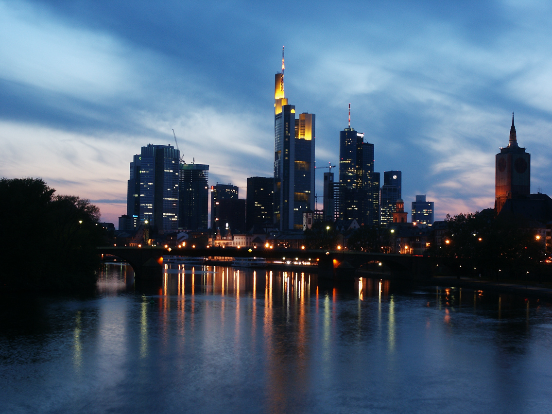 Sunset over Frankfurt (Main); photographers position at the river Main.